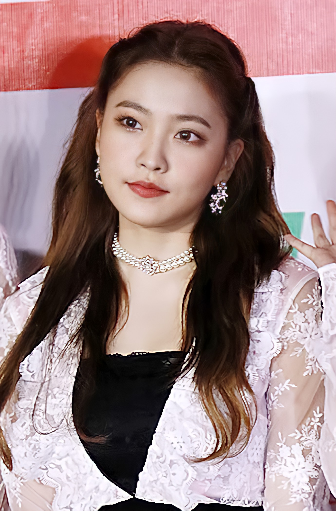 Kim Yeri at Asia Artist Awards on November 26, 2019.